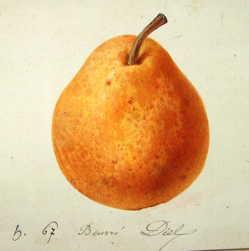 Beurré Diel, aquarelle, A. Mas, 1865.